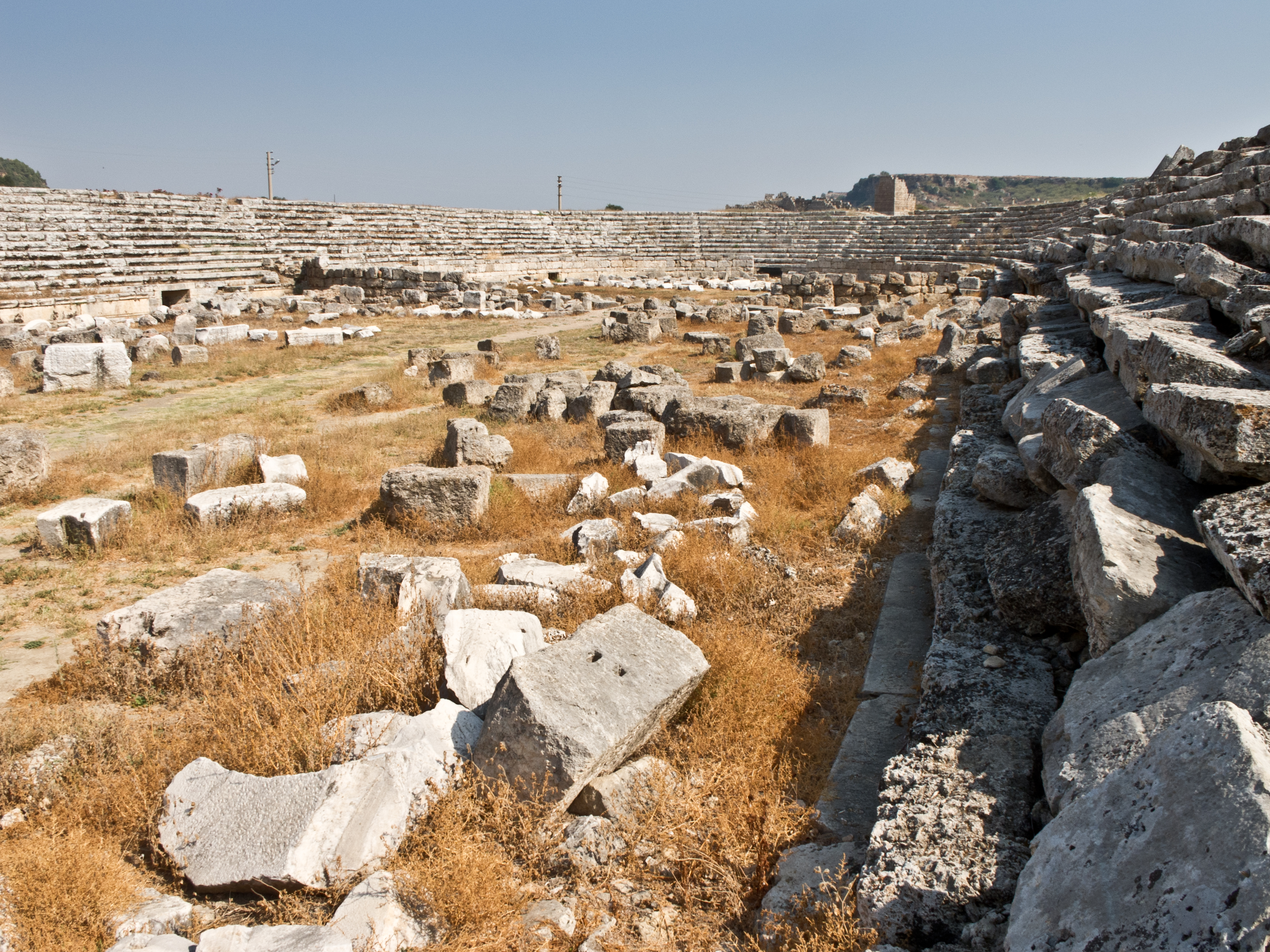 Stadium in Perge, in modern-day Turkey.